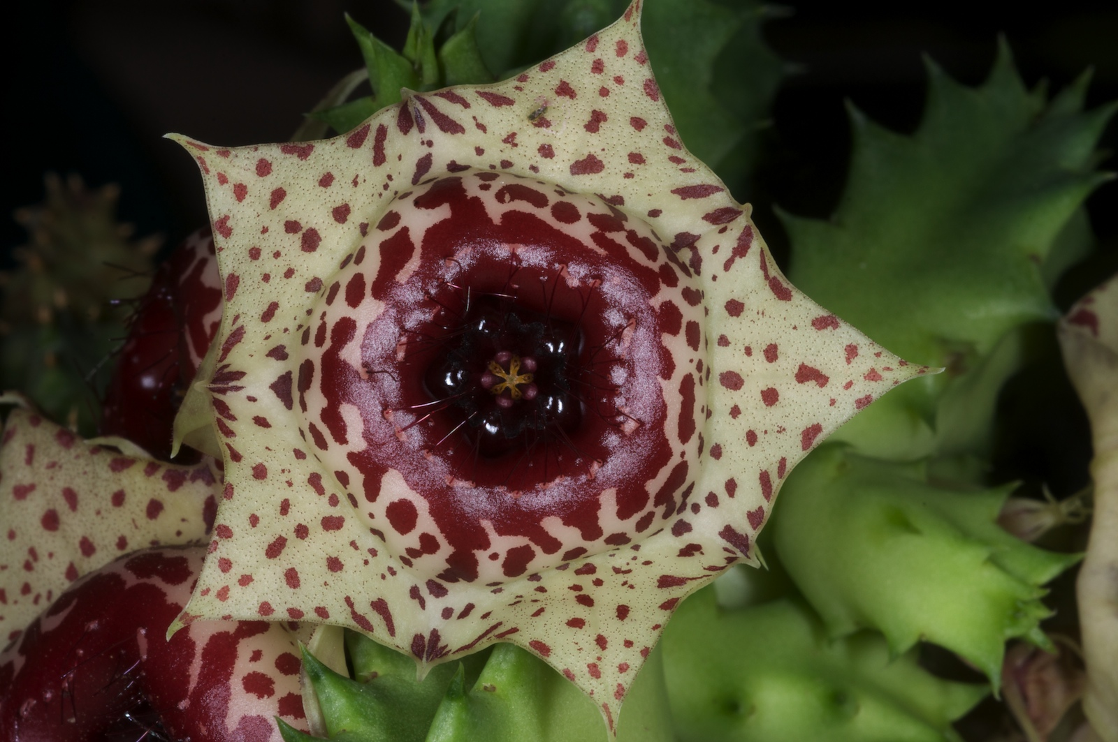 Species from Namibia and South Africa. Grown by Ron Parsons.